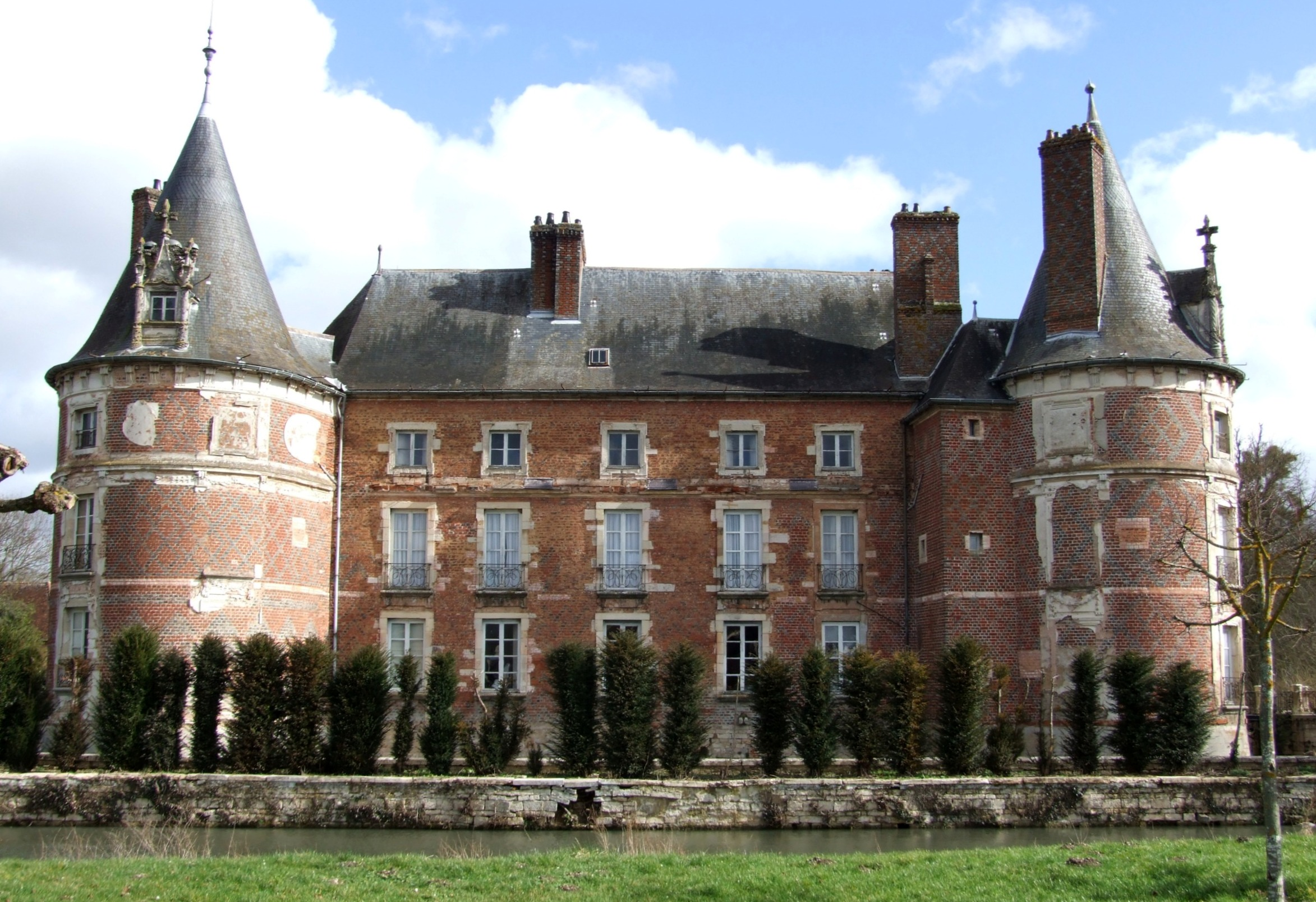 Longecourt-en-Plaine, Burgundy, FRANCE